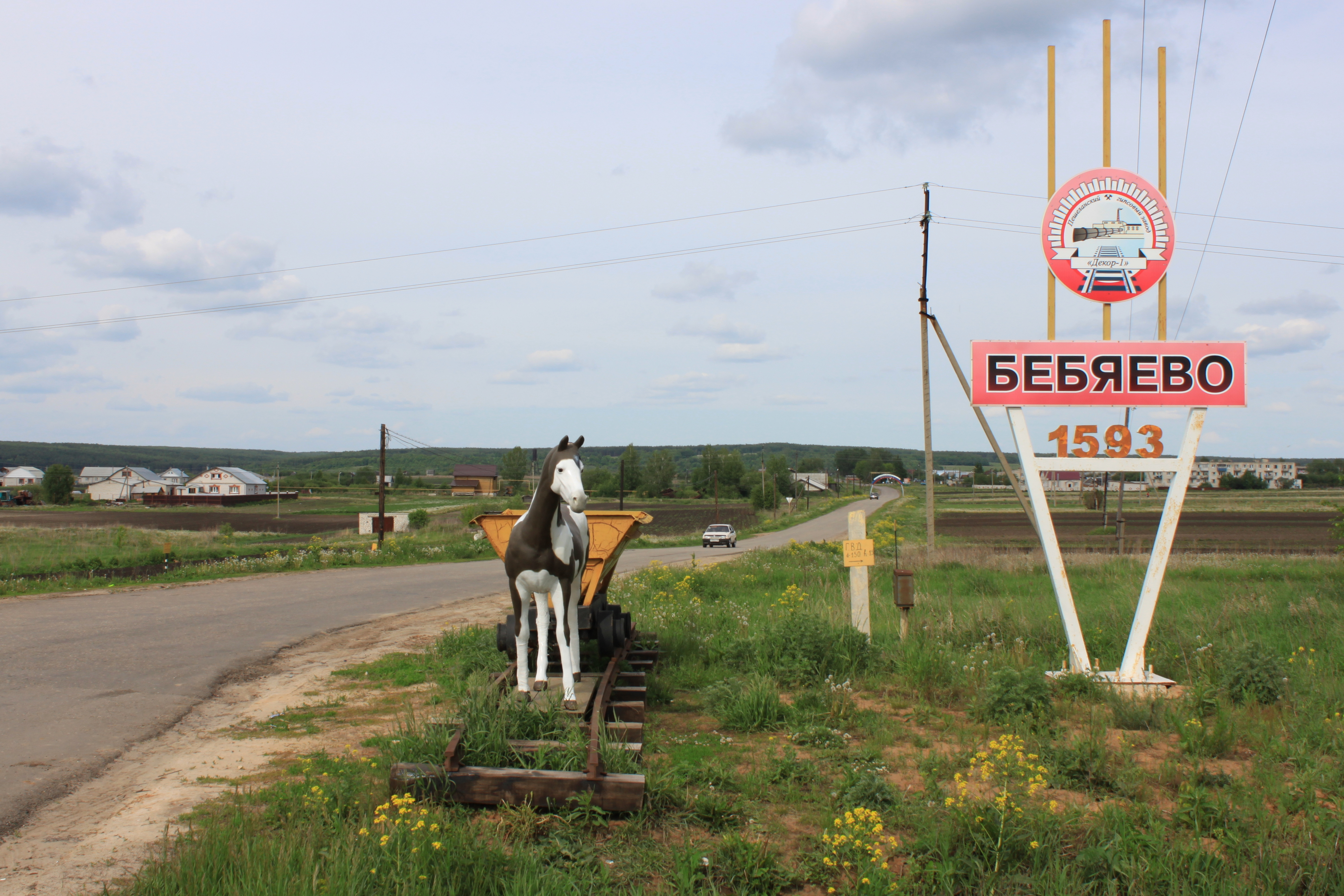 Composition at the entrance to Bebyaevo, Nizhny Novgorod Oblast.